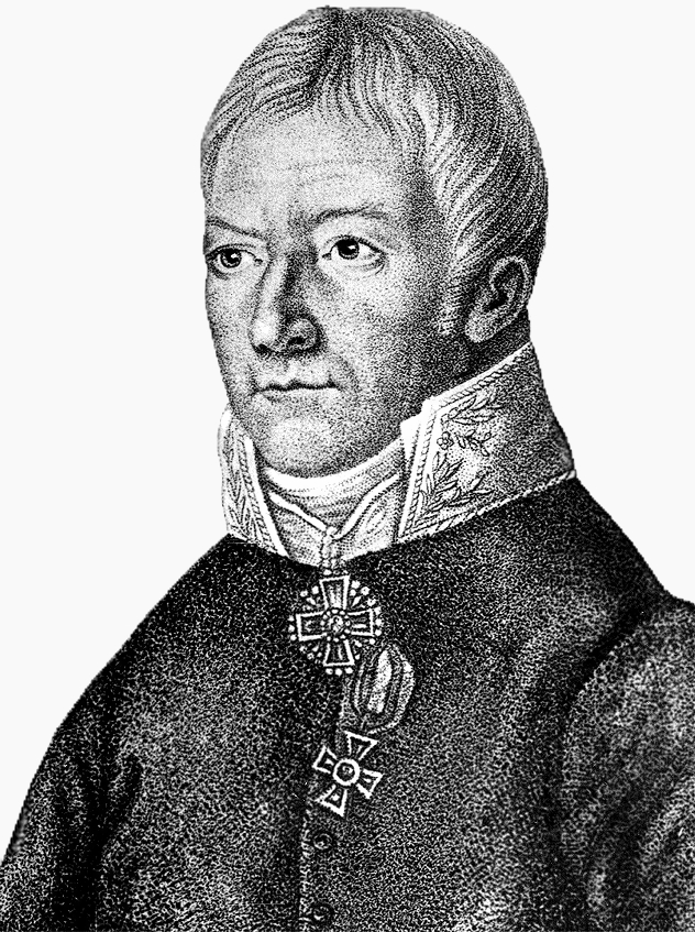 Vasily Severgin